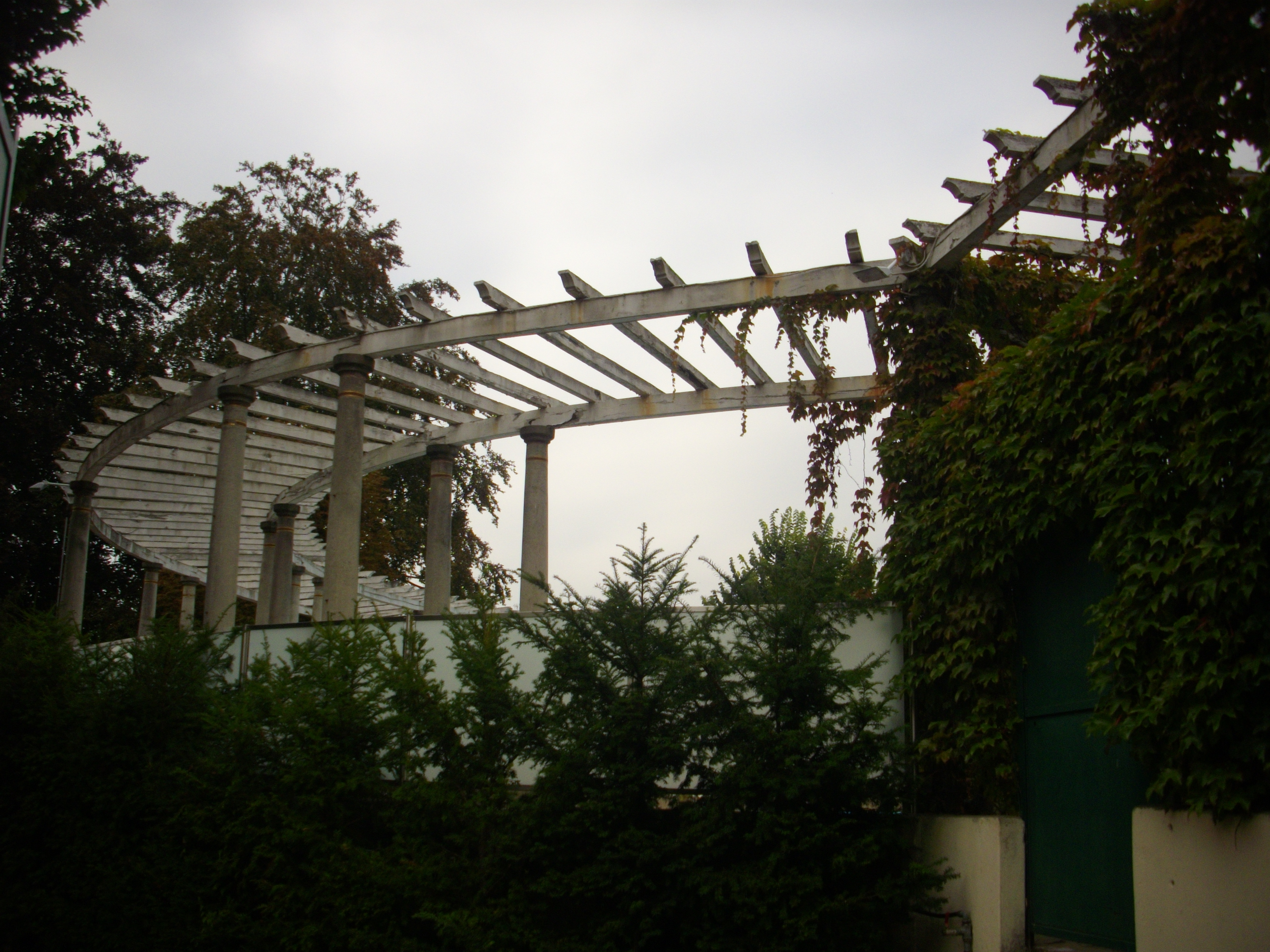 Swimming pool of the Tennis-Club of Reims (Marne, France), pergola .